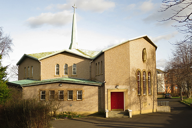 St Teresa of Lisieux Roman Catholic Church cc-by-sa/2.0 - © Anne Burgess - .uk/p/5312405 or more minimalistic version: Photo © Anne Burgess (cc-by-sa/2.0)